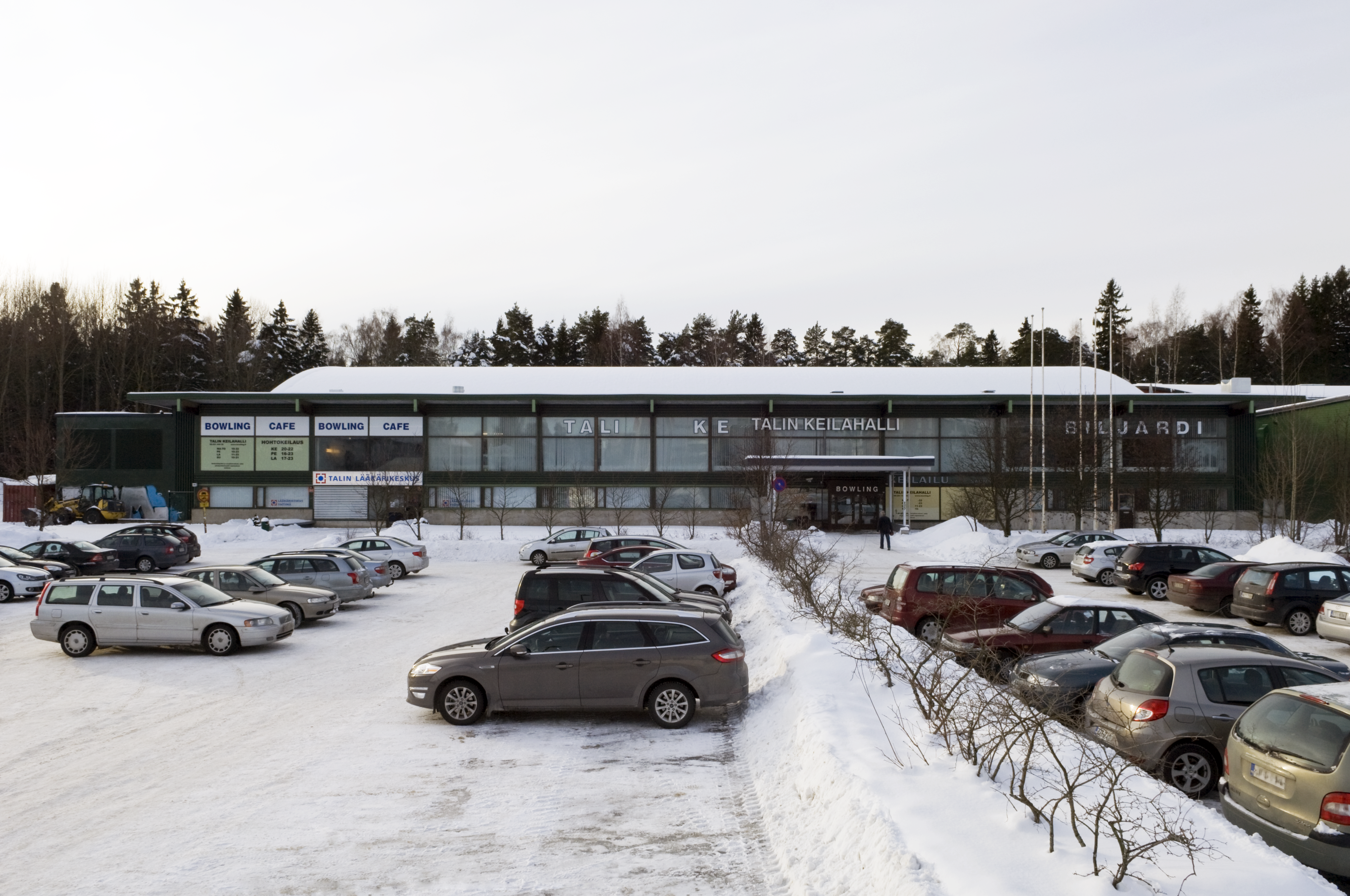 Tali bowling center in Munkkivuori, Helsinki, Finland.